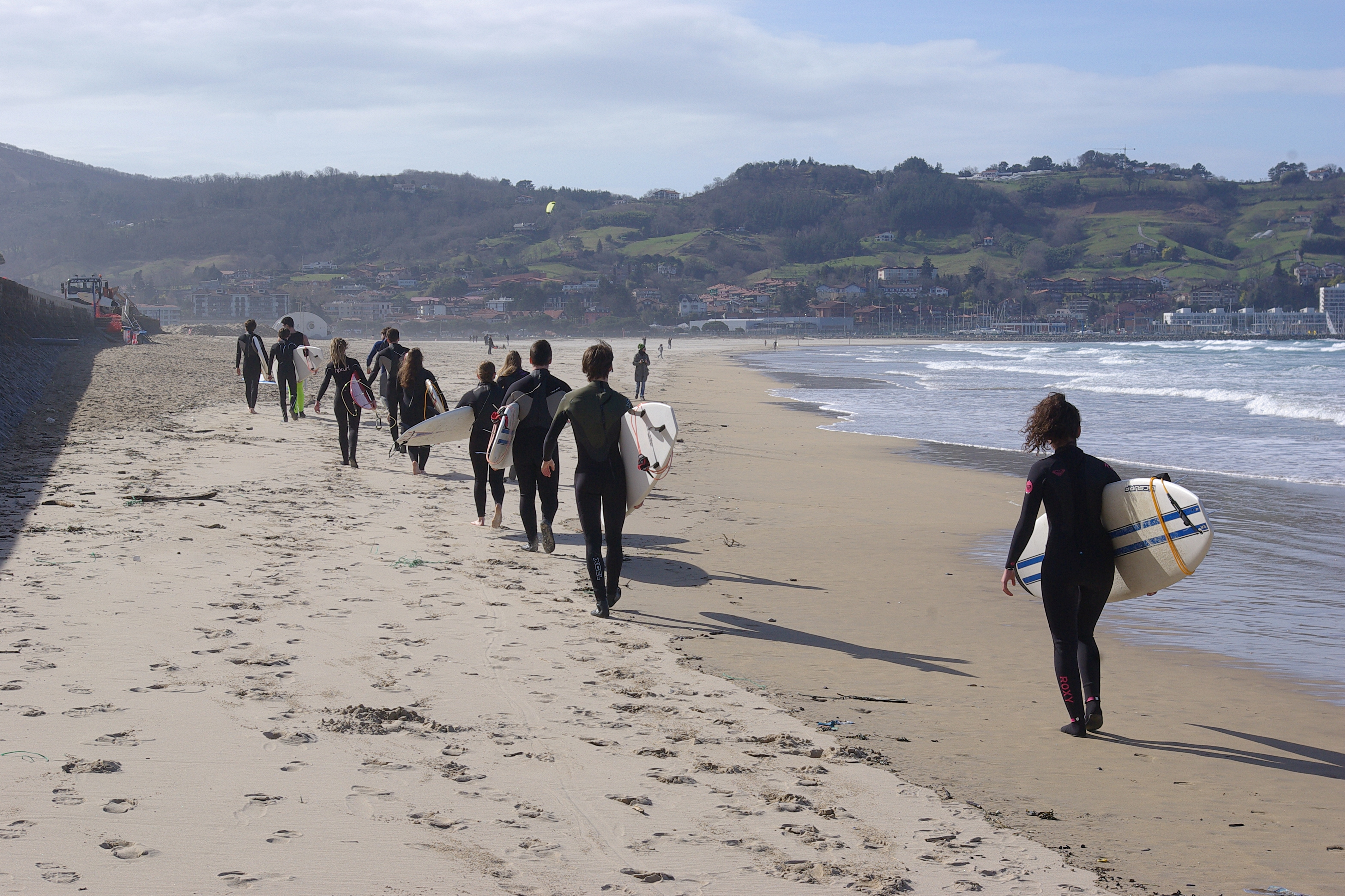 Surf school on the beach in March. Hendaye, Pyrénées-Atlantiques, France.